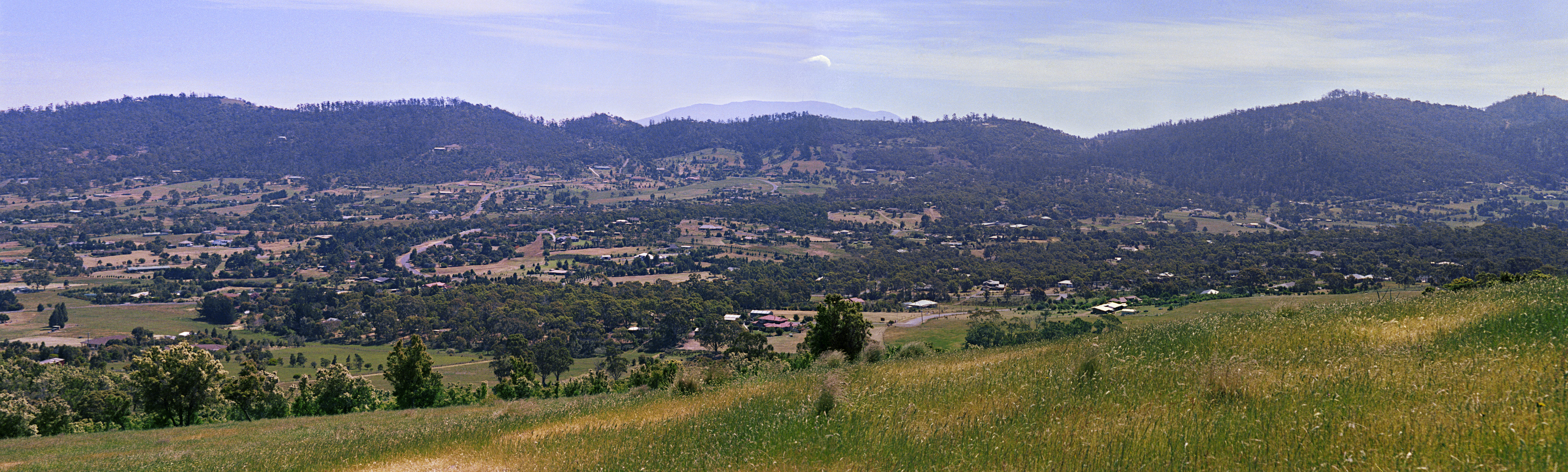 Acton Park, Near Hobart Tasmania. Taken from Single Hill which is located between Seven Mile Beach and Lauderdale in the minucipality of Clarence. The view is looking almost due west. Hobart is hidden by the hills but the summit of Mt Wellington can be seen.